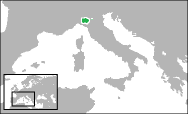 Locator map showing the Duchy of Parma. (Partially based on Euratlas map of Europe - 1600, 1700, 1800.)